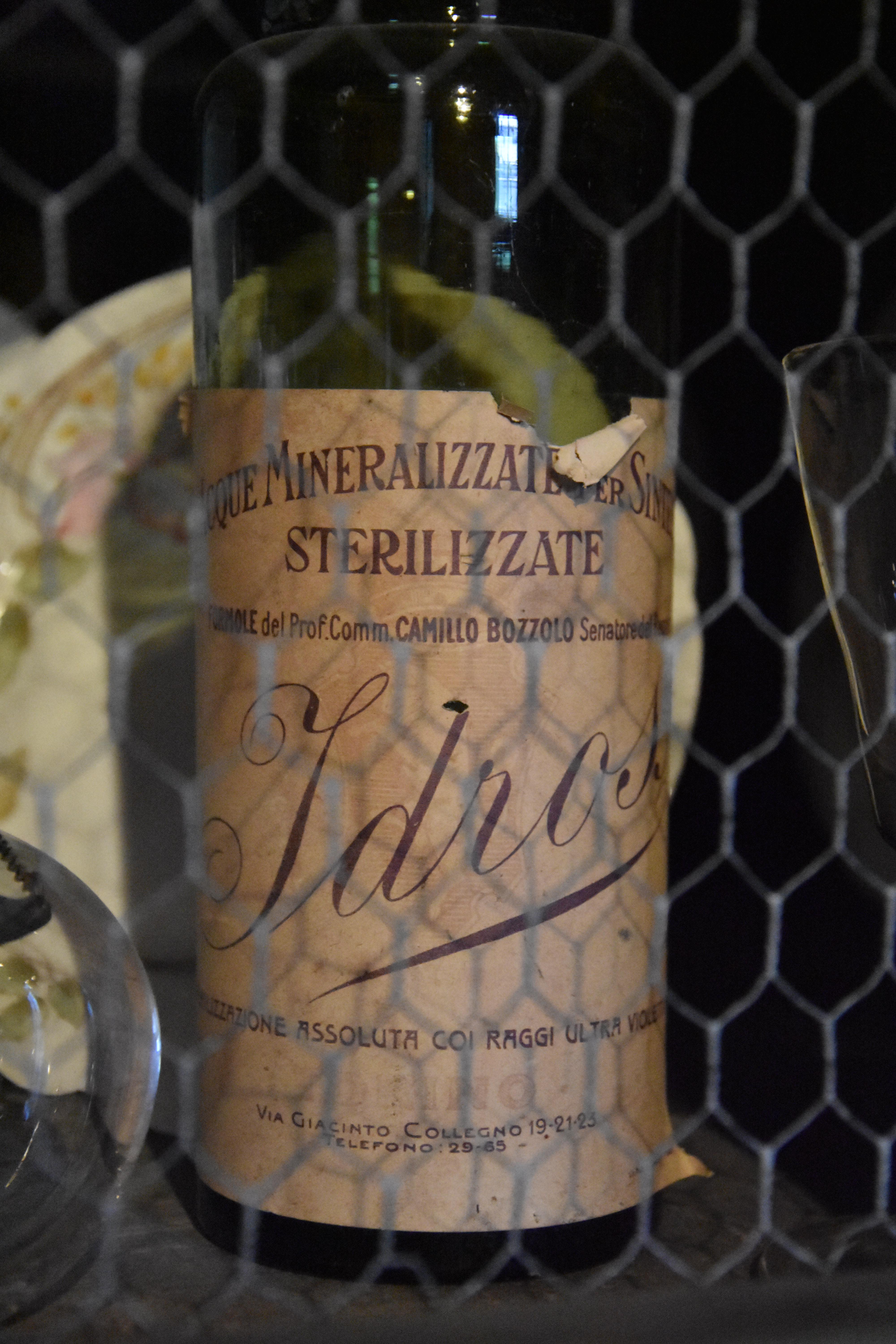 Villa Della Porta Bozzolo in Casalzuigno, Italy.